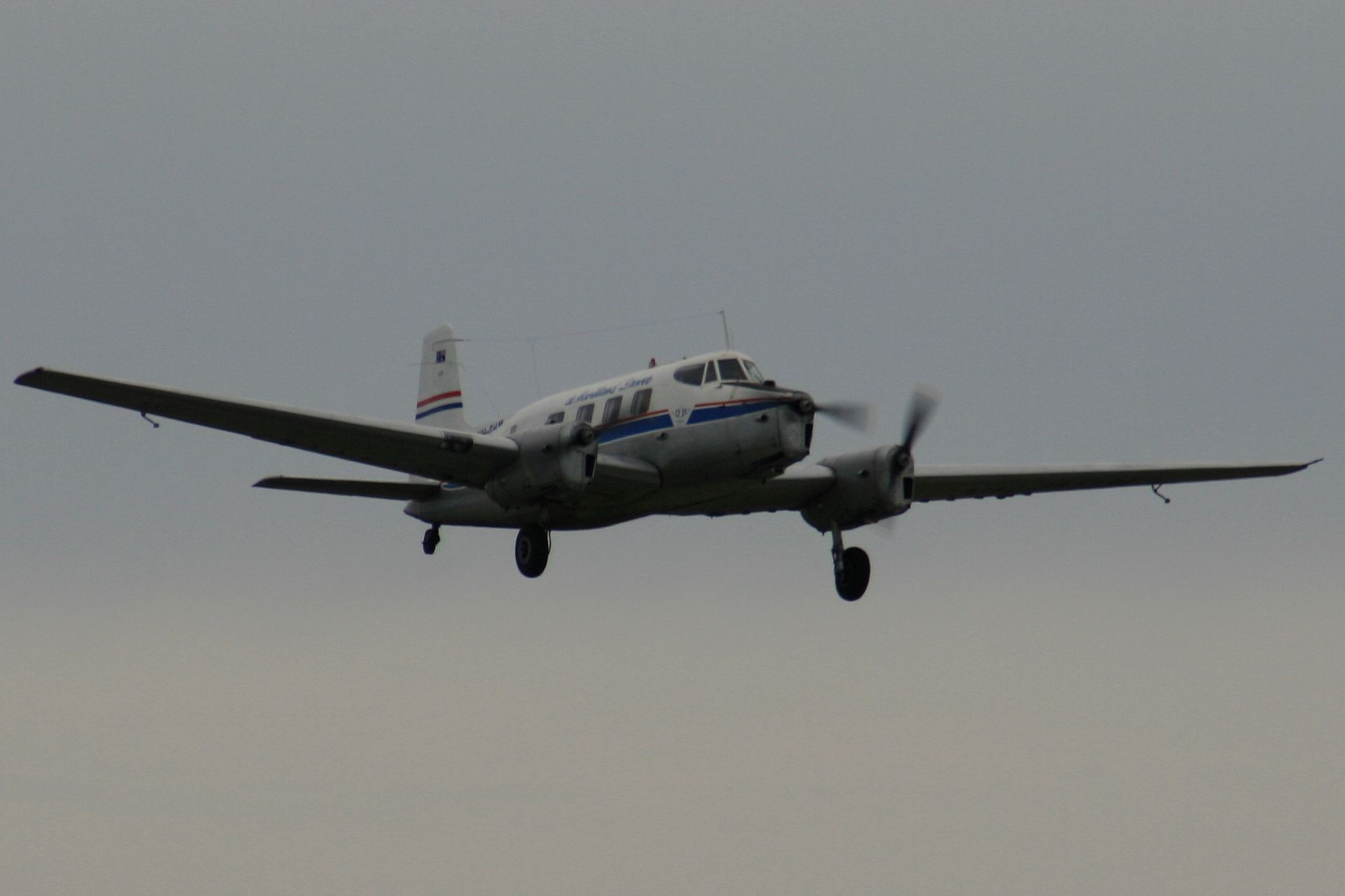 de Havilland Australia DH(A)-3 Drover VH-DHM airborne at Royal Australian Navy Air Station HMAS Albatross near Nowra, New South Wales